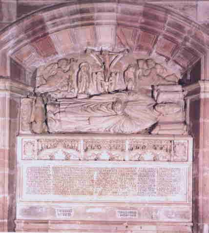 Tomb of bishop Bernard of Agen in the Cathedral of Sigüenza, XII century.